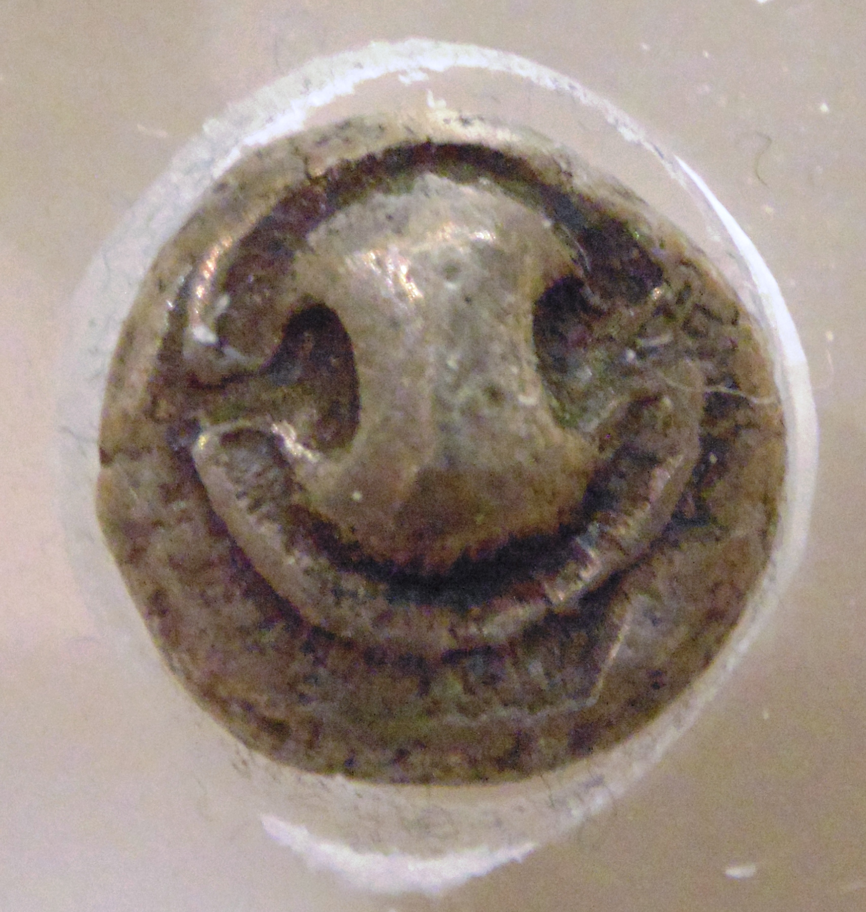 Collection of Archaeological Museum of Thebes